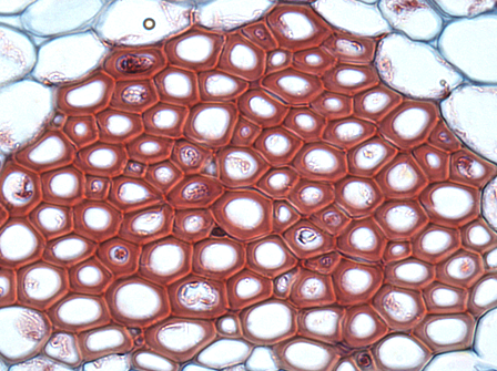 Carl Szczerski, prep slide, no internet locations, taken for a laboratory tutorial